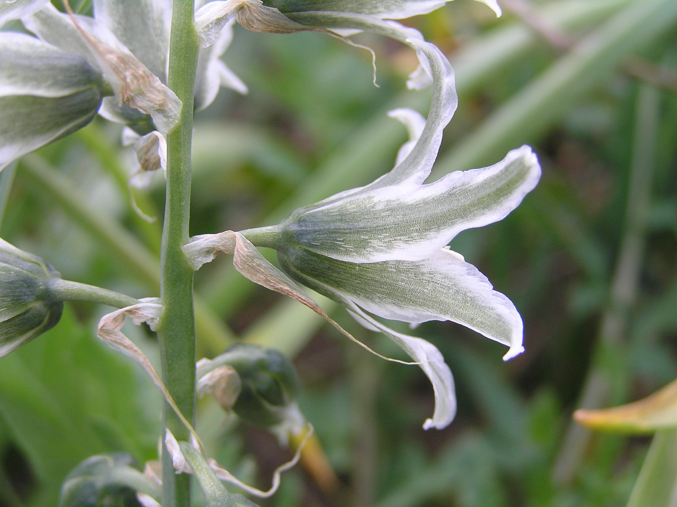 Ornithogalum boucheanum, between Lanžhot and Břeclav, Southern Moravia, Czech Republic